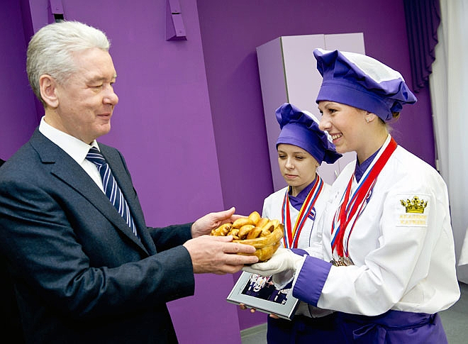 The mayor of Moscow has visited Technological college №14